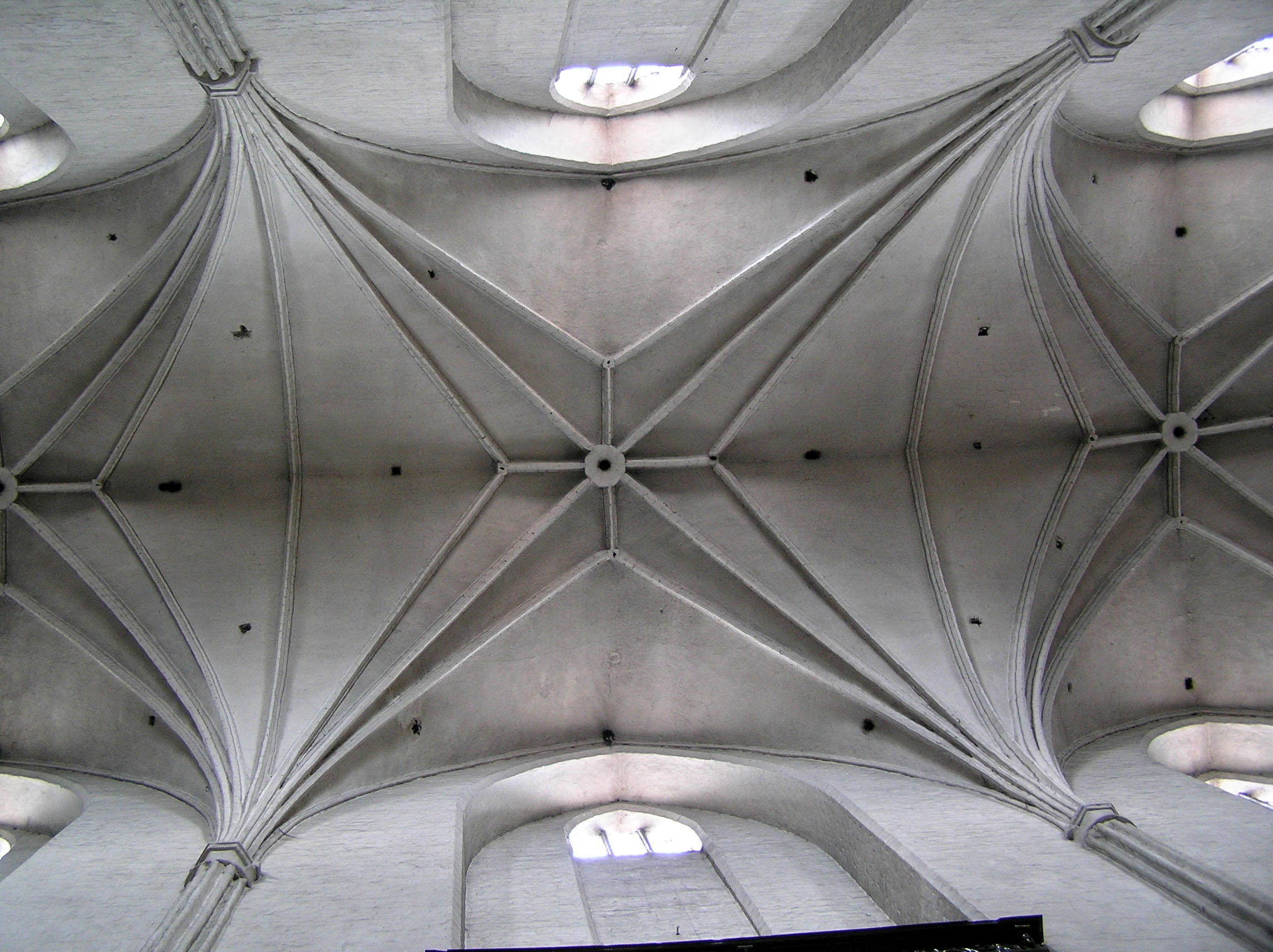 Toruń, St. James church, nave vaulting.